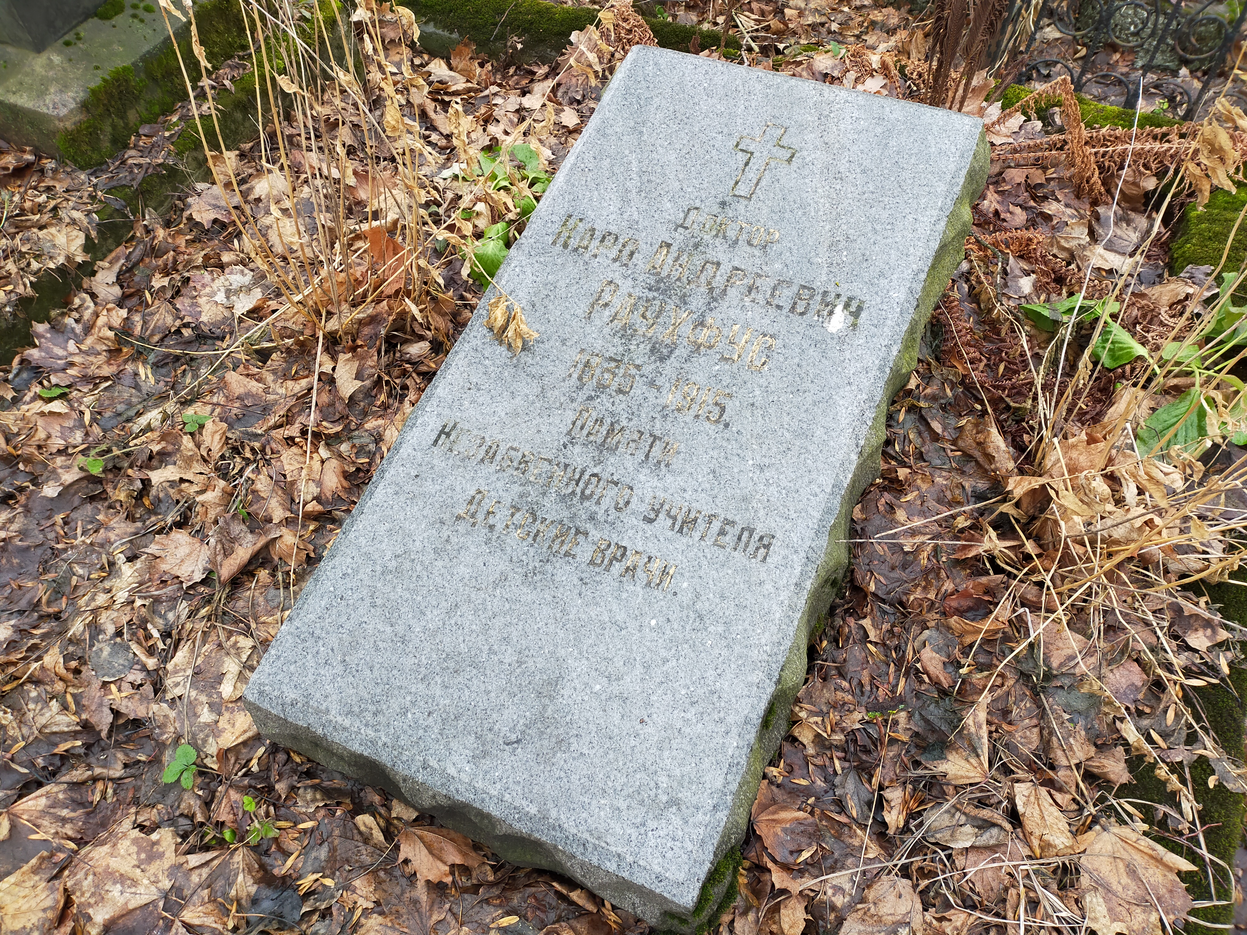 Karl Gottlieb Rauchfuß MD